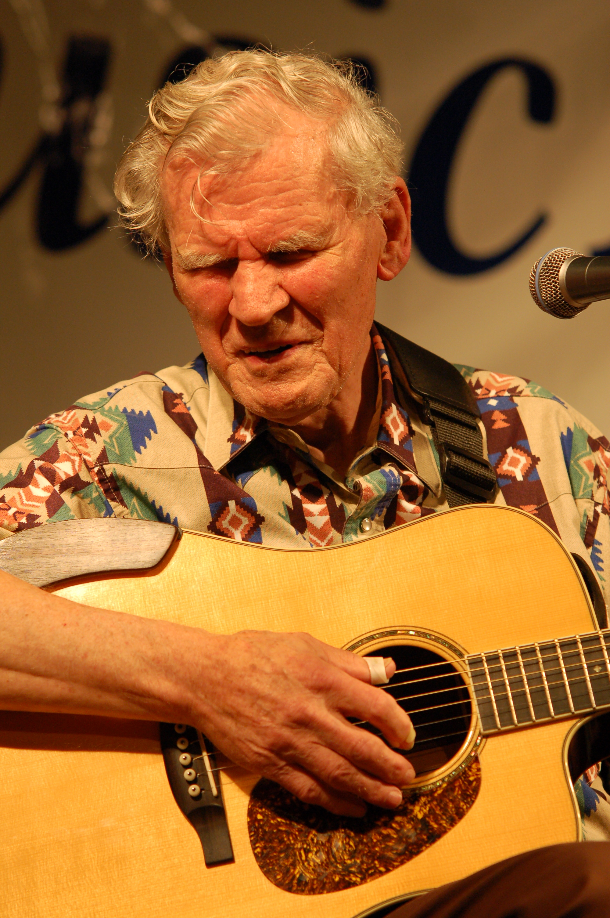 From Flickr: Doc Watson, 86 years old, plays to the crowd at another fantastic Sugar Grove Music Fest.